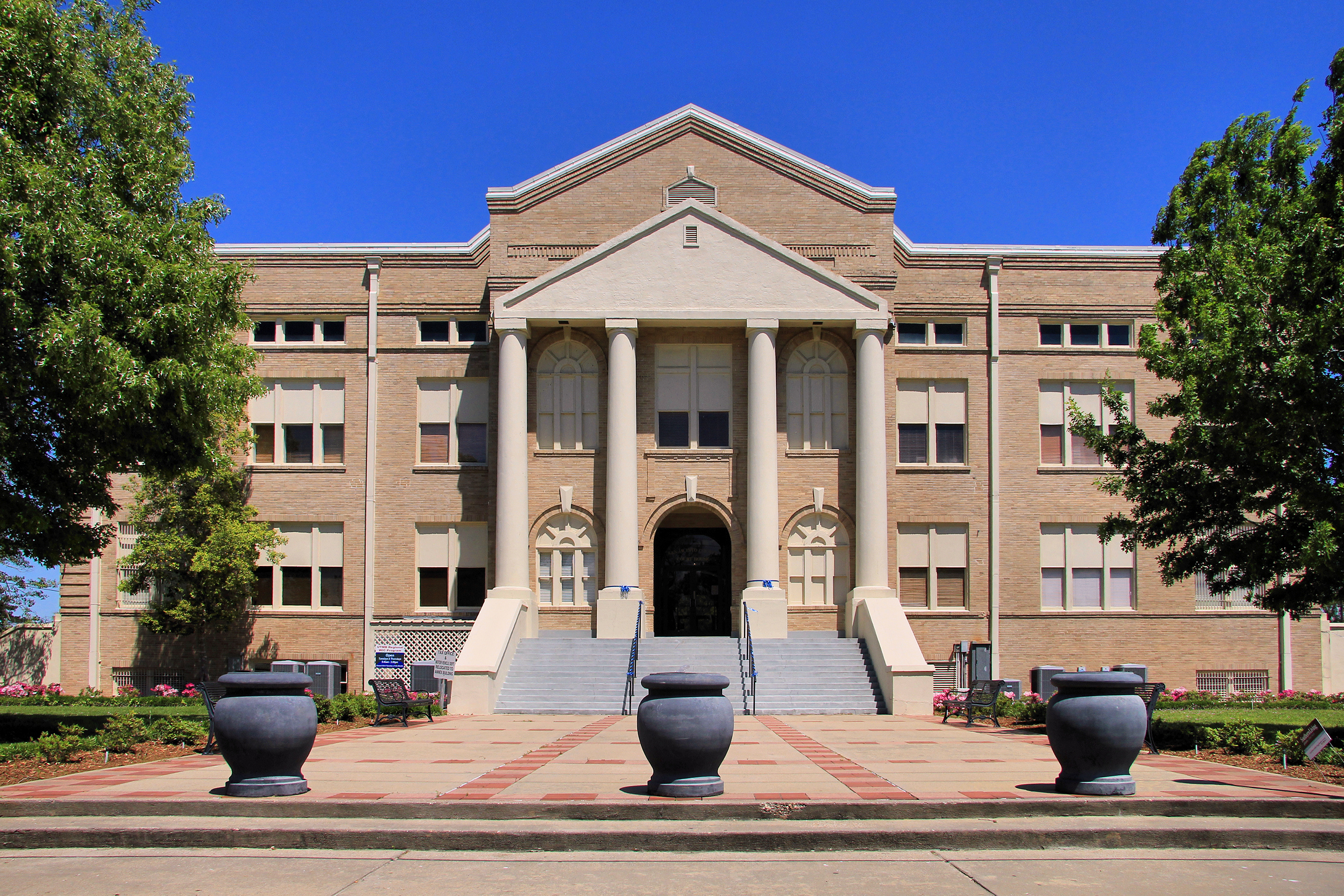 The San Jacinto County Courthouse in Coldspring, Texas, United States. The courthouse was designated a Recorded Texas Historic Landmark in 2000 and was listed on the National Register of Historic Places on May 1, 2003.